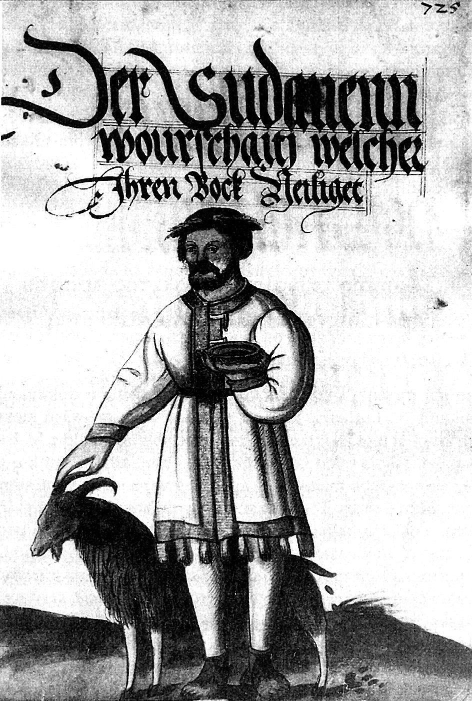 A Prussian pagan priest sacrificing a goat to the Prussian god Wurschayto